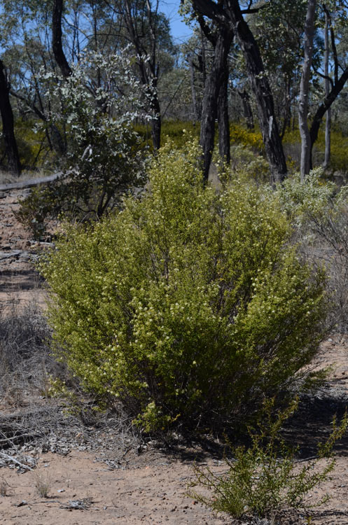 Habit of Phebalium glandulosum subsp. glandulosum in Carnarvon National Park, Goodliffe Section, about 150km east of Blackall, Queensland